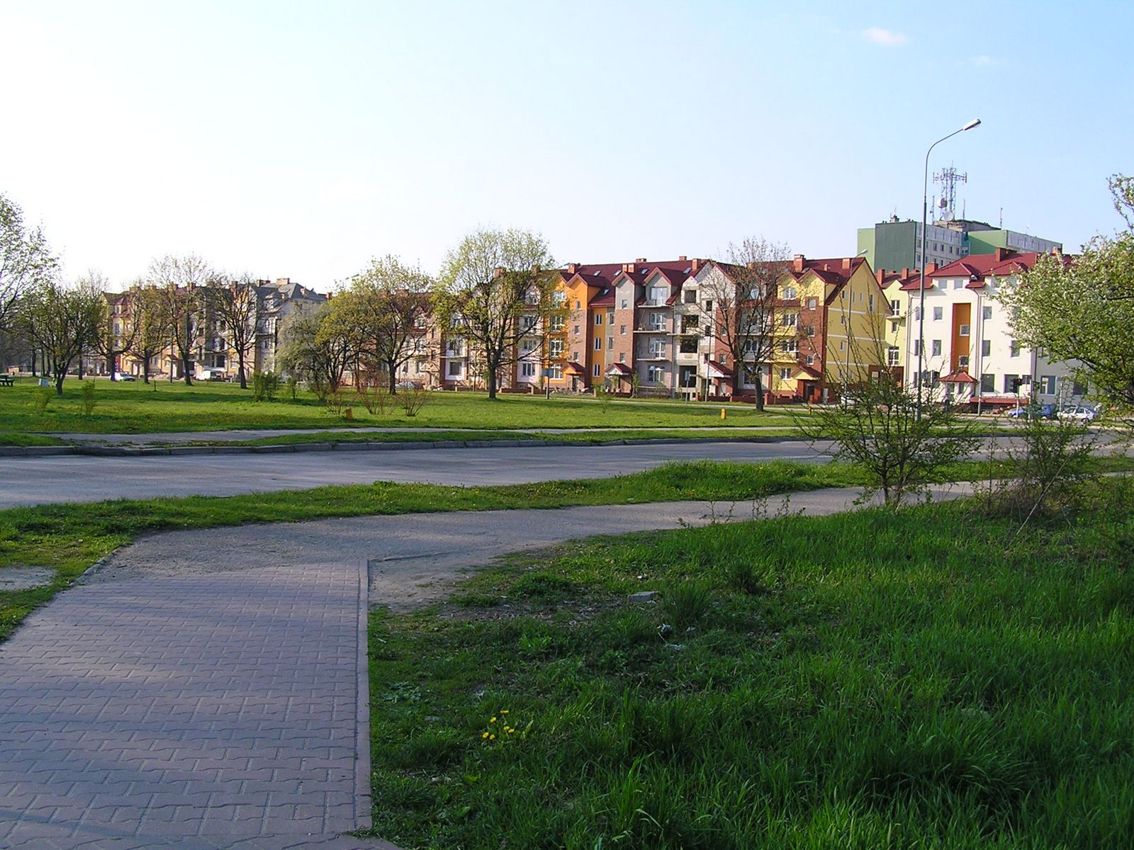 autor: Yarek shalom 22:12, 24 October 2006 (UTC)yarek shalom